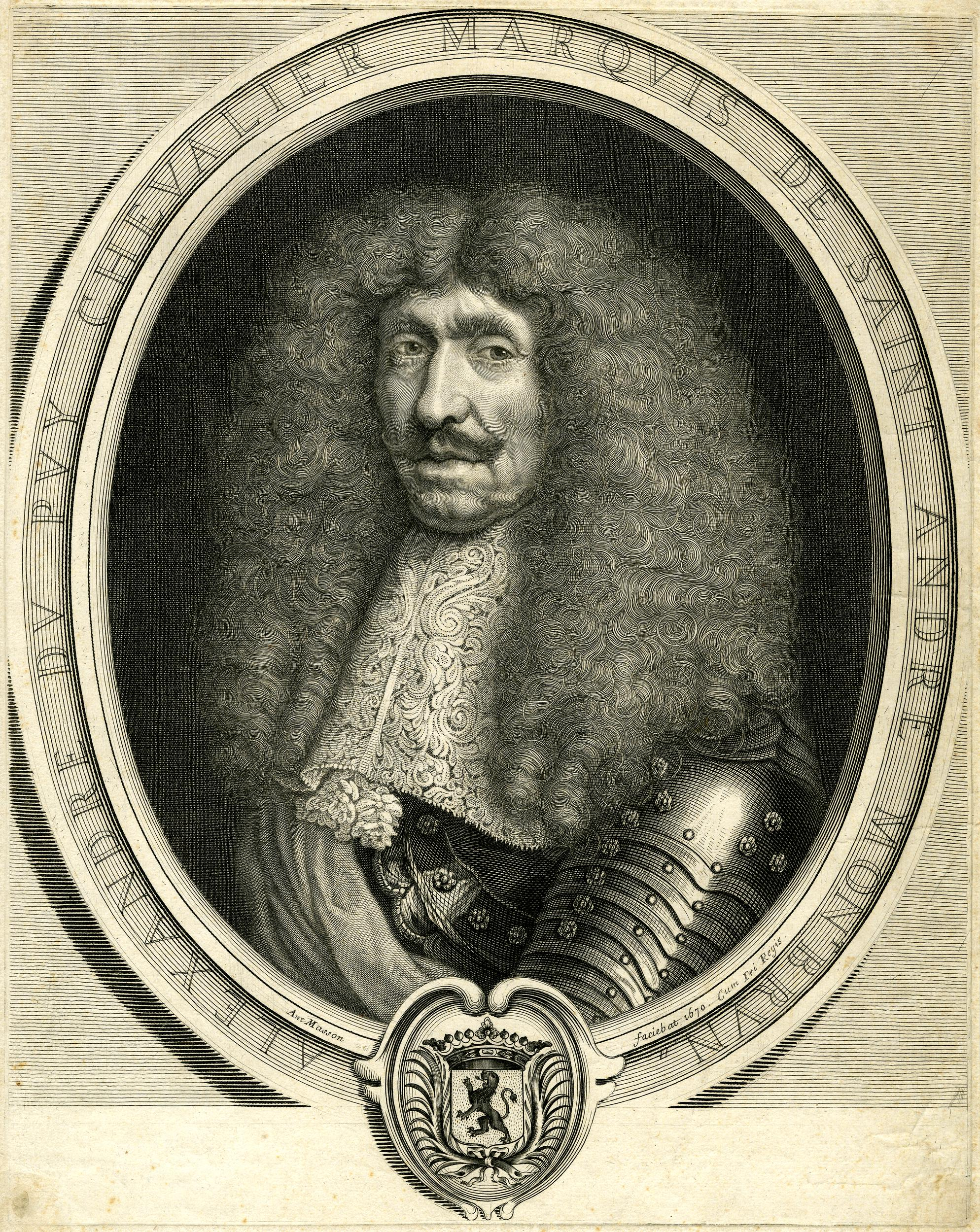 Alexandre Du Puy Montbrun